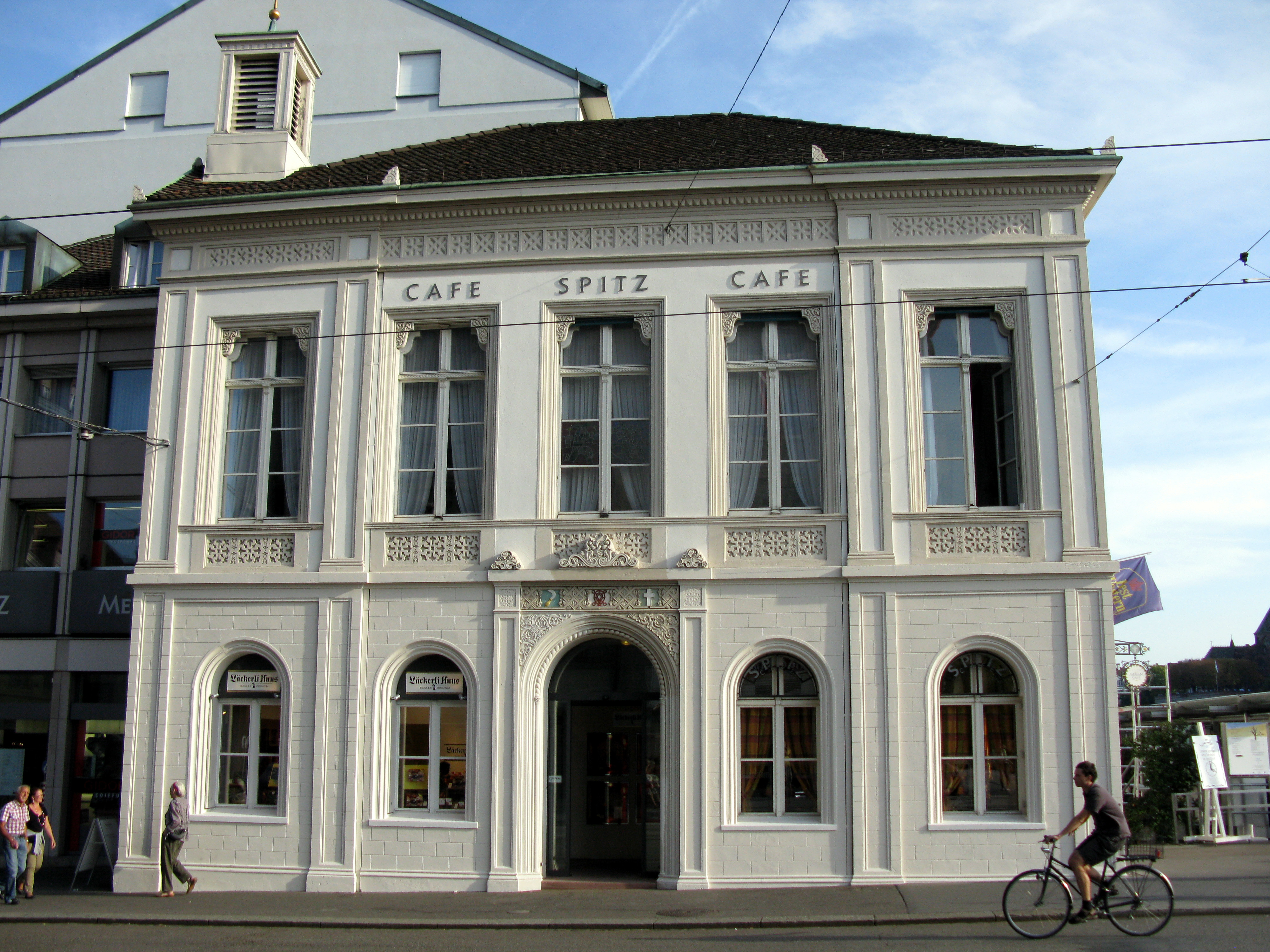 Café Spitz